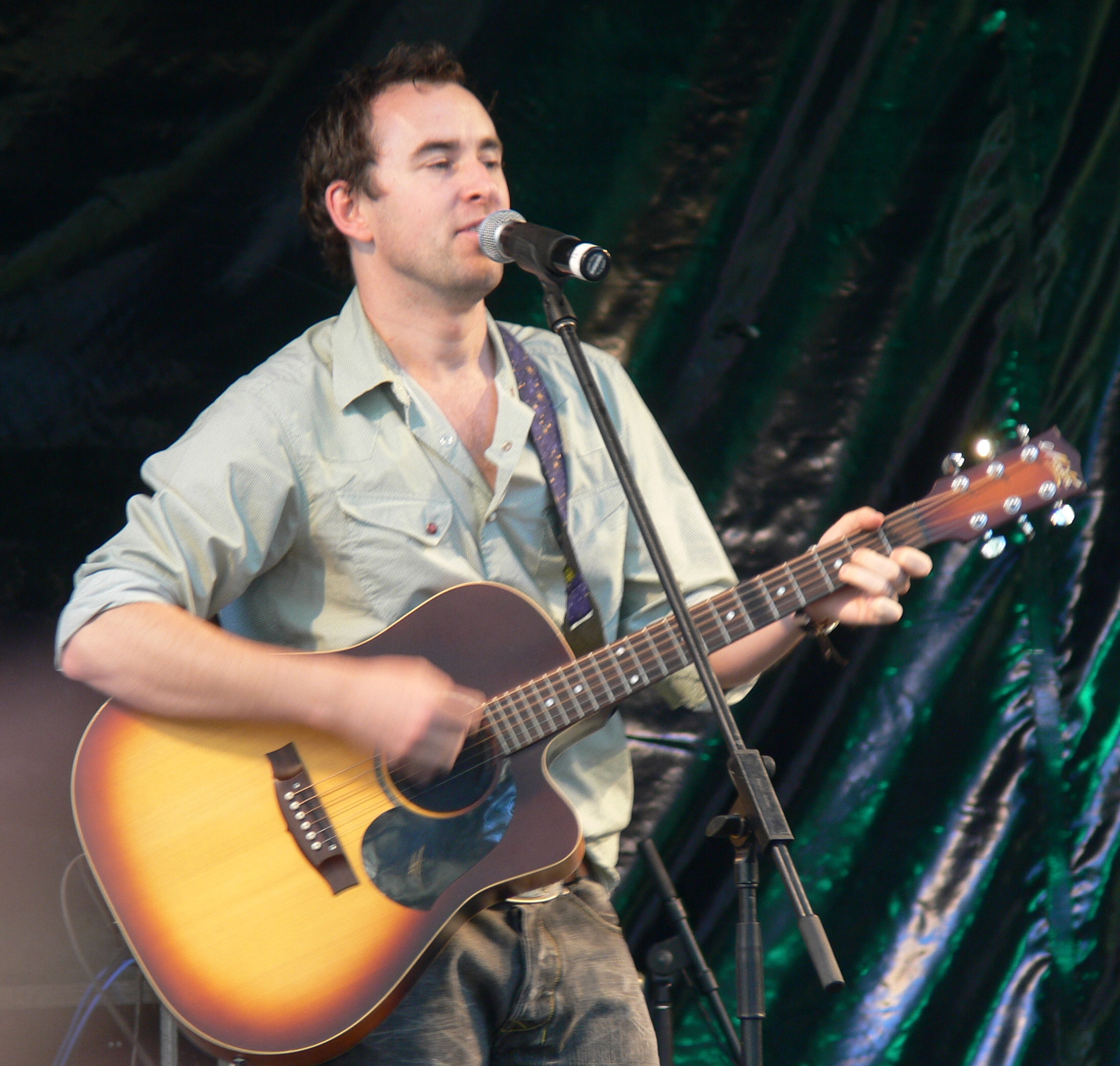 Damien Leith performing at Paddys Day Parade Sydney 2007. Image cropped from original.